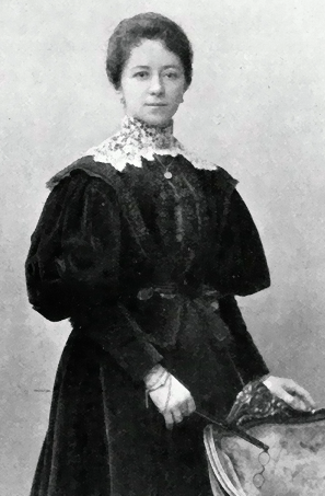 Milena Mrazović, the first female journalist in Bosnia and Herzegovina. Photograph from a newspaper article reviewing her book, Selam.